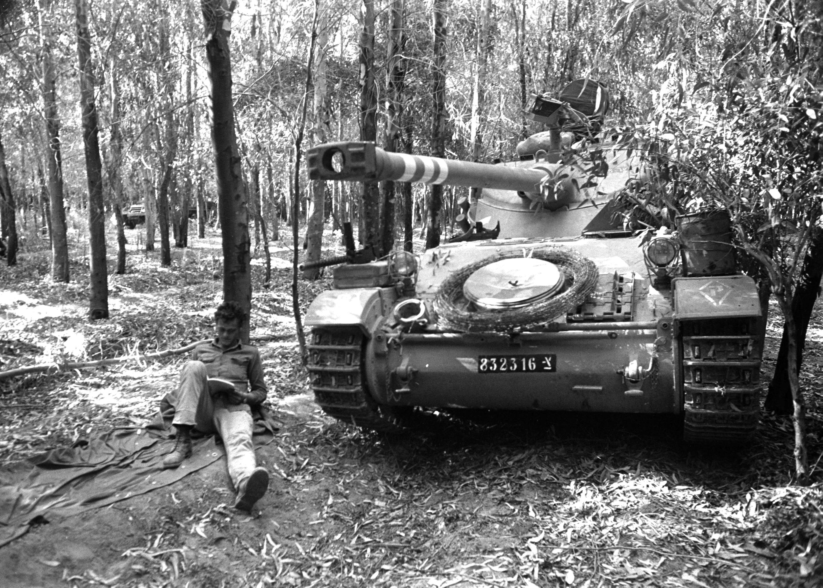 An AMX tank parked under trees.